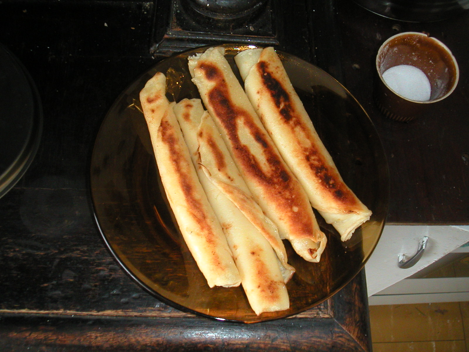 Homemade crepes with sweet white cheese filling.